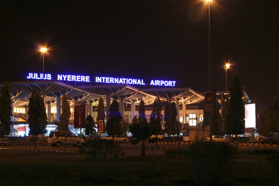 Julius Nyerere International Airport